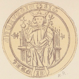 Seal (front) of King Haakon V Magnusson of Norway, based on eleven documents, dated 1299–1313. Text: "✠ SIG[illum Haqvini d]EI GRAC[ia regi]S NORVEGIE". Size: 68 mm.